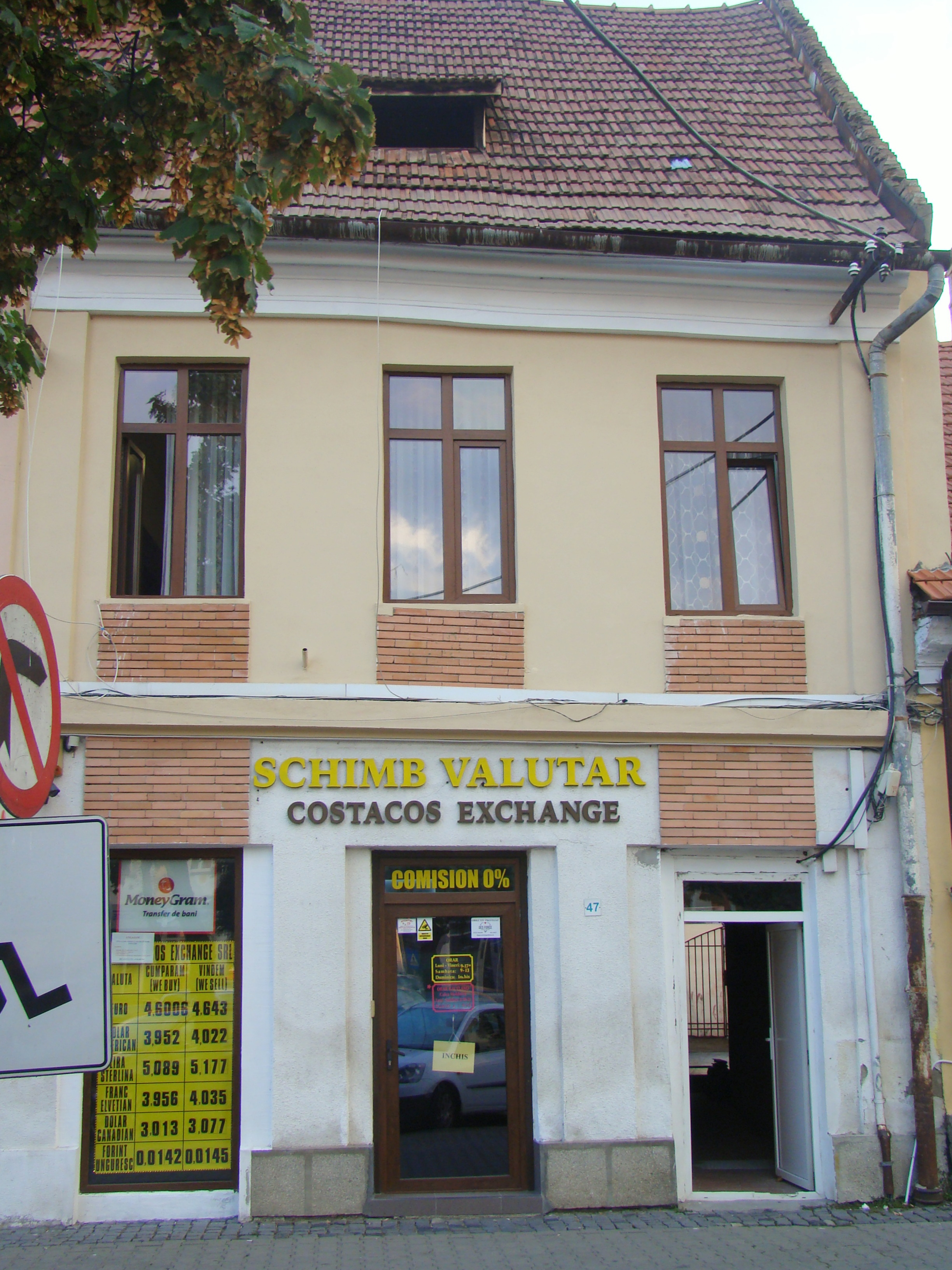 House, historic monument, in Bistrița, Liviu Rebreanu street 47